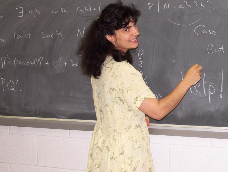 Leila Schneps giving a lecture